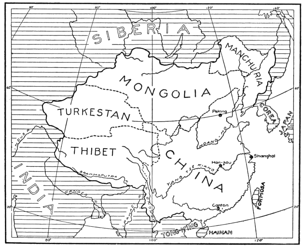 Sketch map of China